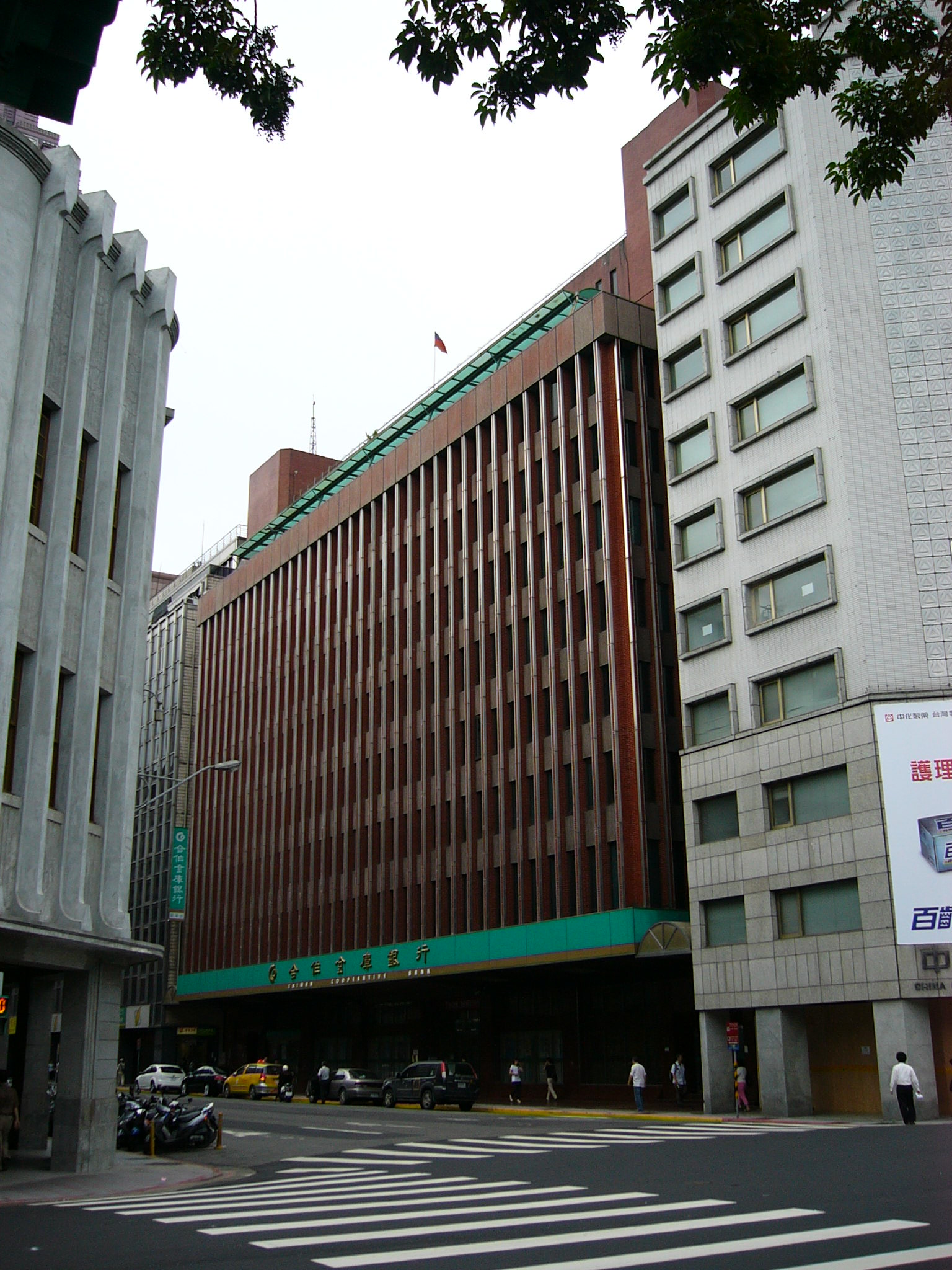 Taiwan Provincial Cooperative Treasury Building, the headquarters of Taiwan Cooperative Bank. Address: No.77, Guanqian Road, Zhongzheng District, Taipei City.